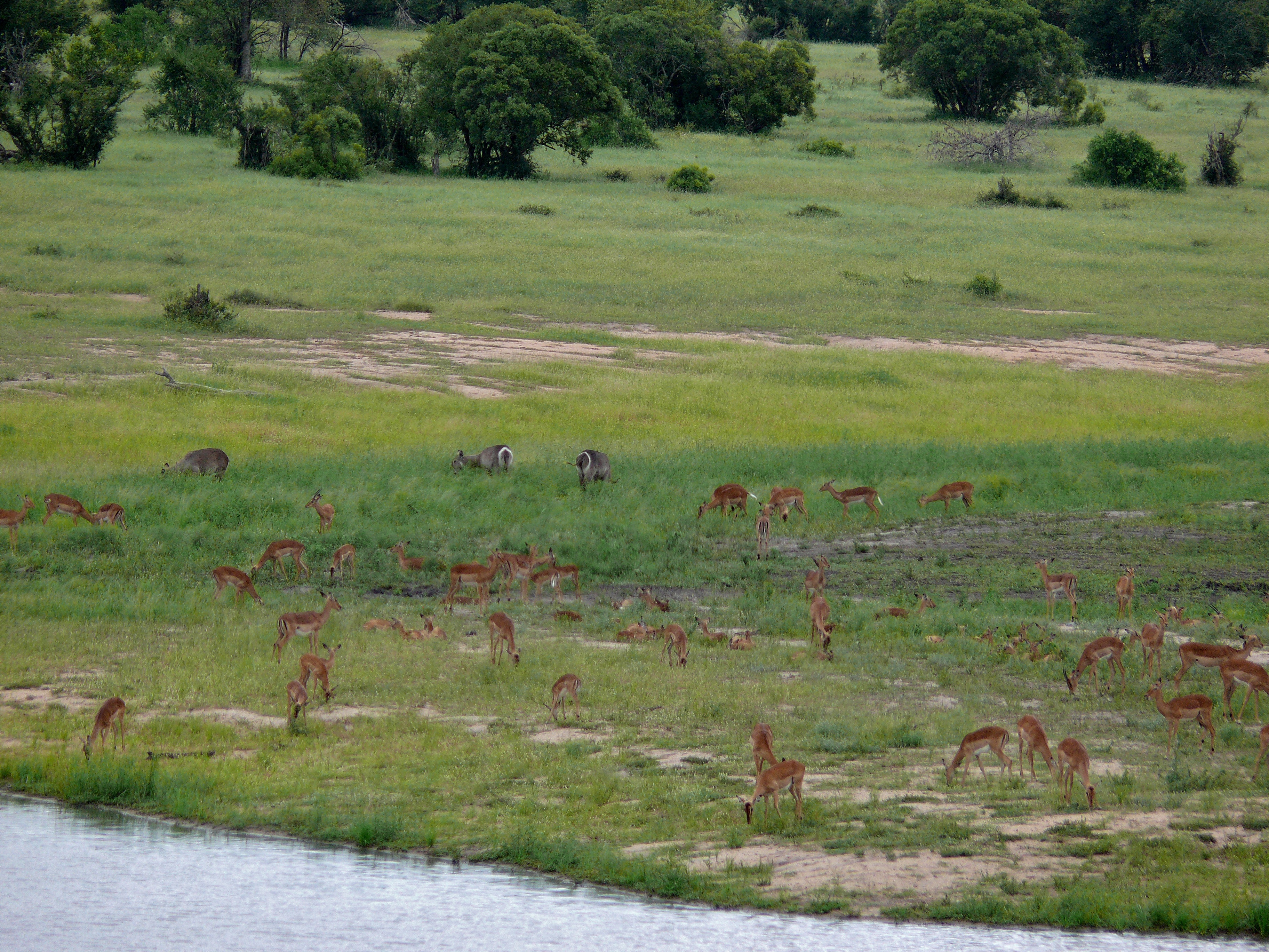 S36 South of Satara, Kruger NP, SOUTH AFRICA